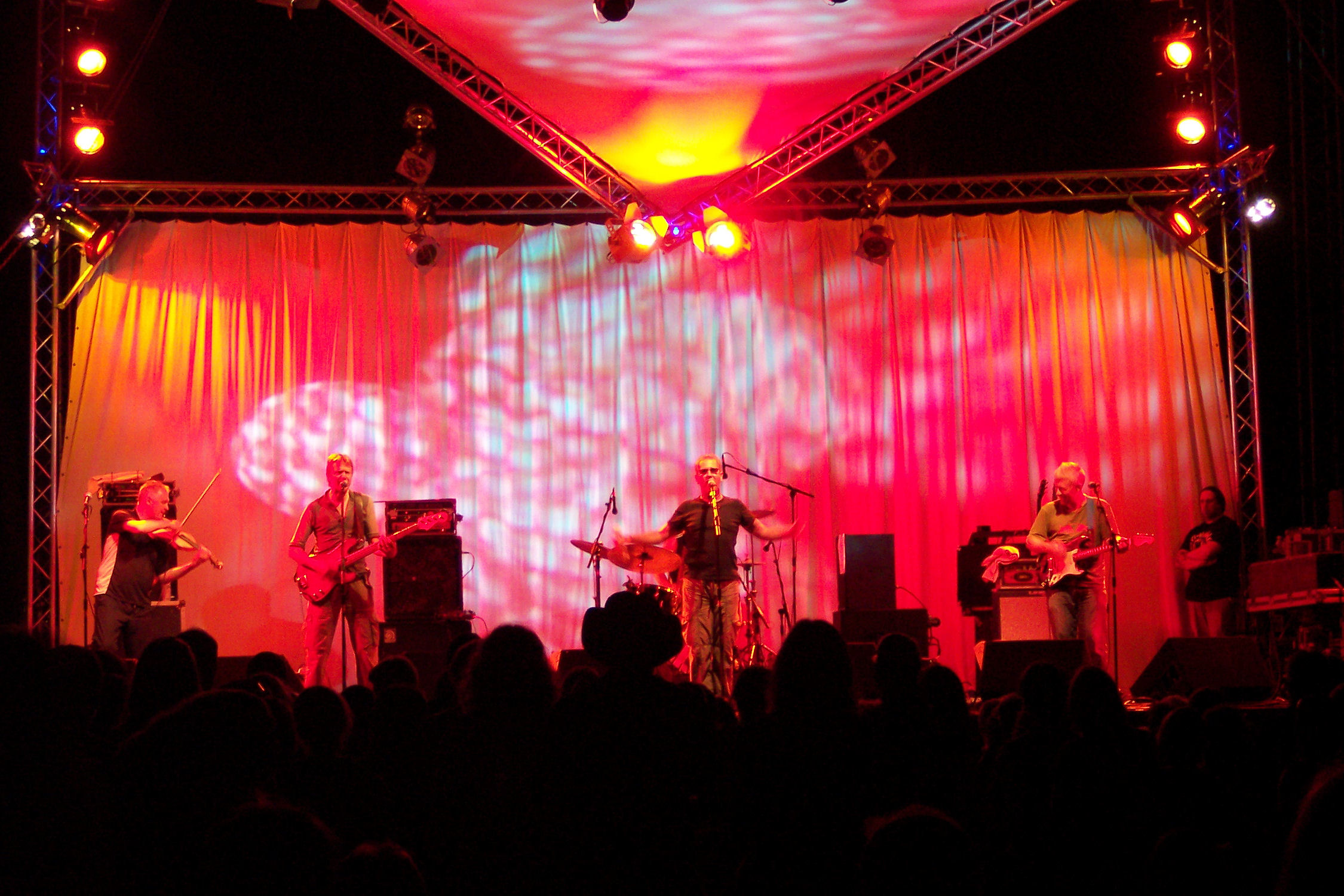 British folk rock band Oysterband headlining the Saturday evening of the 2006 Wickham Festival